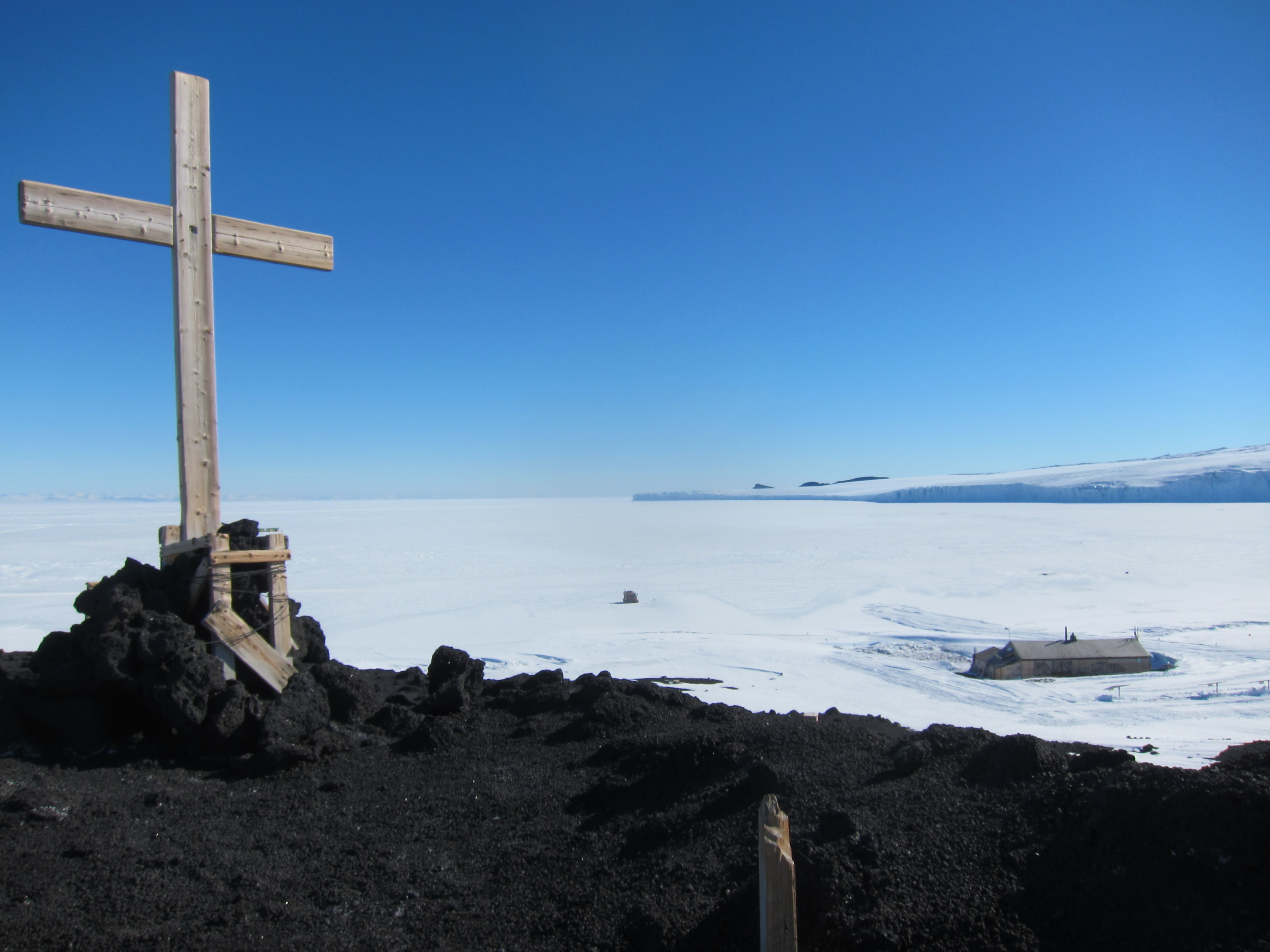 At Cape Evans on Ross Island Antarctica, the Cross at Wind Vane Hill stands in remembrance of fallen members of Shackleton's Ross Sea Party in 1916. In the background is the Barne Glacier and Terra Nova Hut, erected by Robert Falcon Scott in 1911, and used again by Shackleton's Ross Sea Party in 1915-1917.